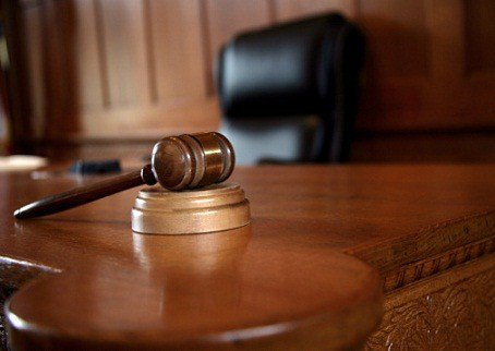 Courtroom Gavel